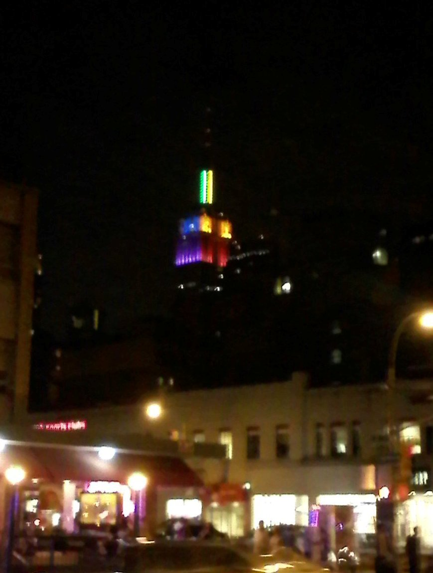 The Empire State Building in New York City lit in rainbow colors following the passage of the Marriage Equality Act which made same-sex marriage legal in the State of New York.